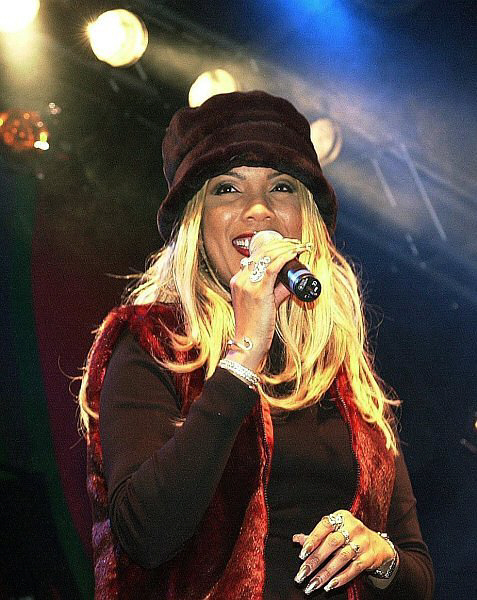 Melanie Thornton at her final performance in Leipzig on November 24, 2001, hours before she died in a plane crash.